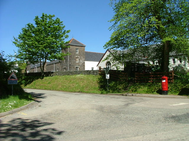 Sabhal Mor Ostaig College. A Gaelic speaking further education college.